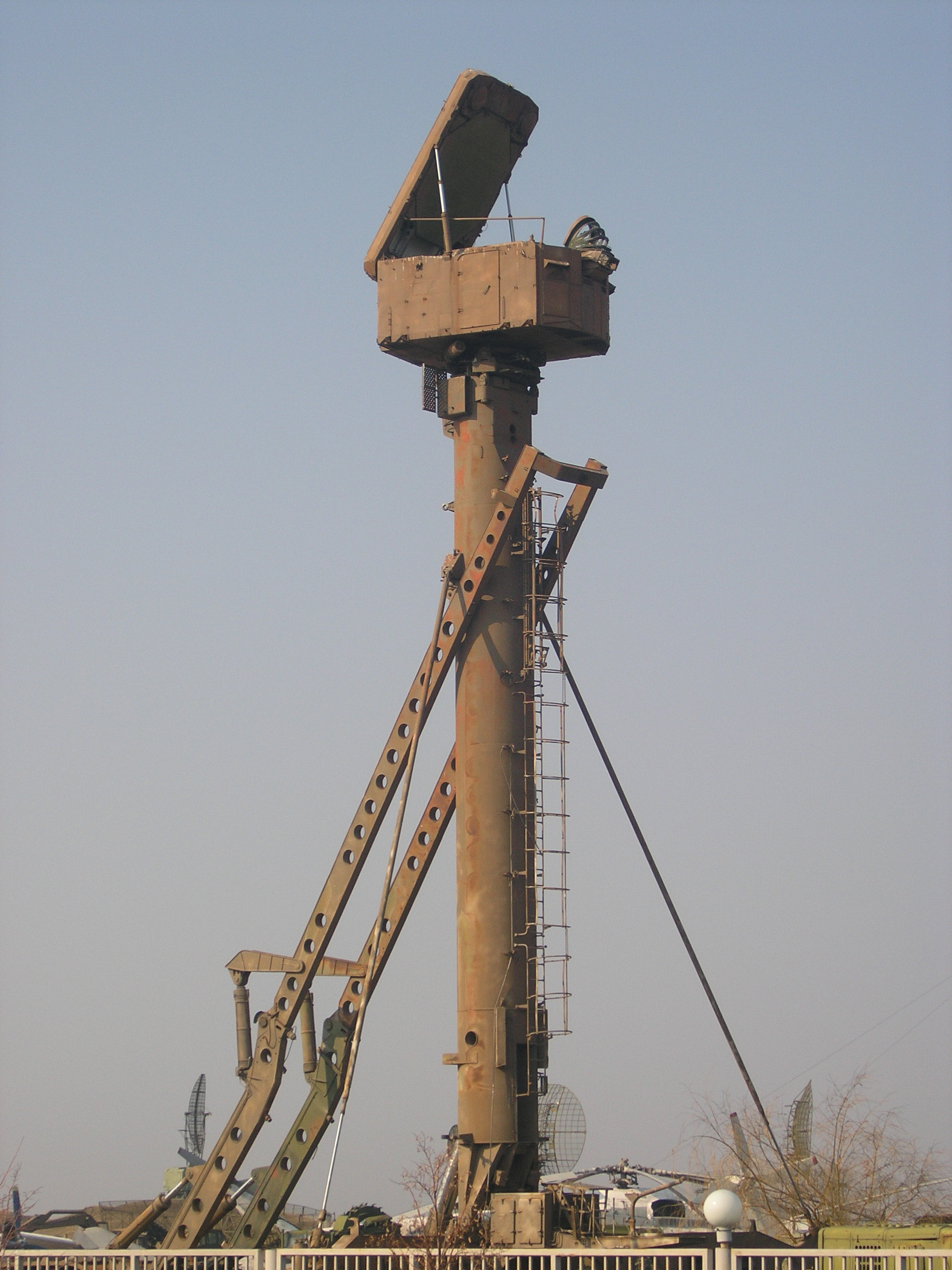 30N6 (FLAP LID) fire control system